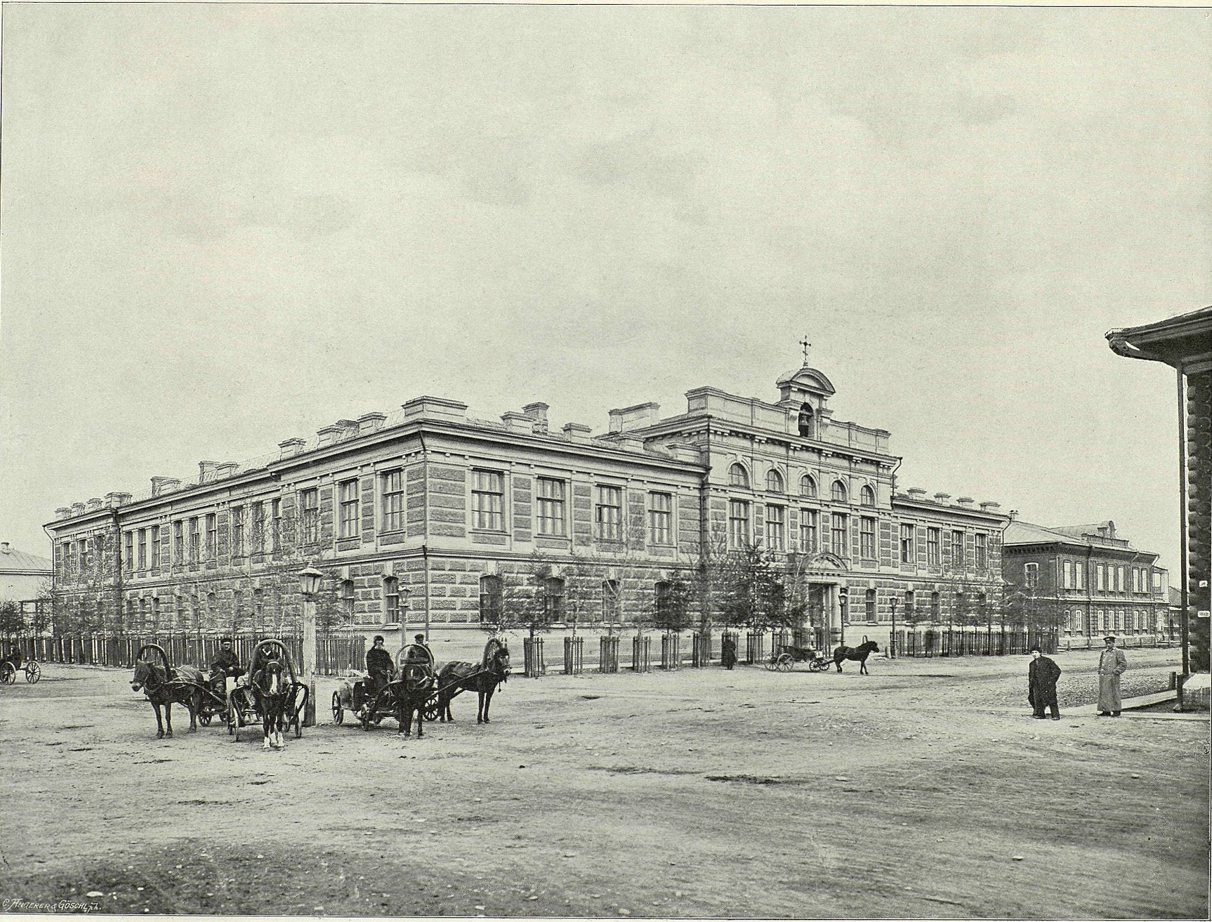 Krasnoyarsk boy's gymnasium (Lenin street, 70). «Great Path - Views of Siberia and Great Siberian Railway» book, 1899